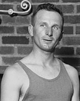 From left to right, American swimming champions Ludy Langer (1893 - 1984), Claire Galligan and Duke Kahanamoku (1890 - 1968, right), circa 1920.